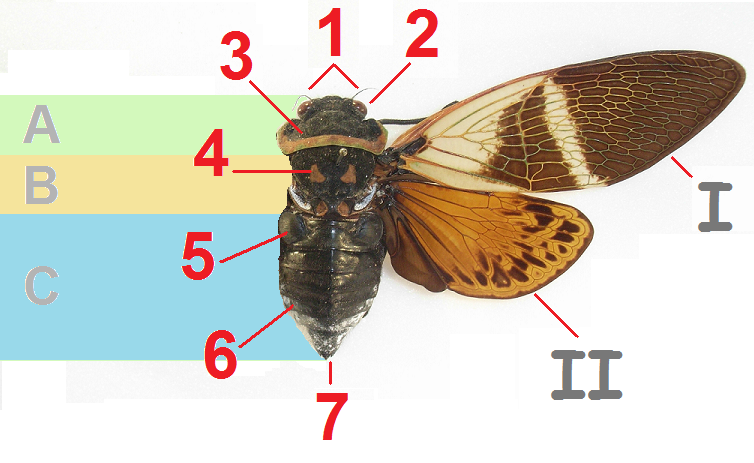 Angamiana floridula Thailand Ex coll. Felix Stumpe